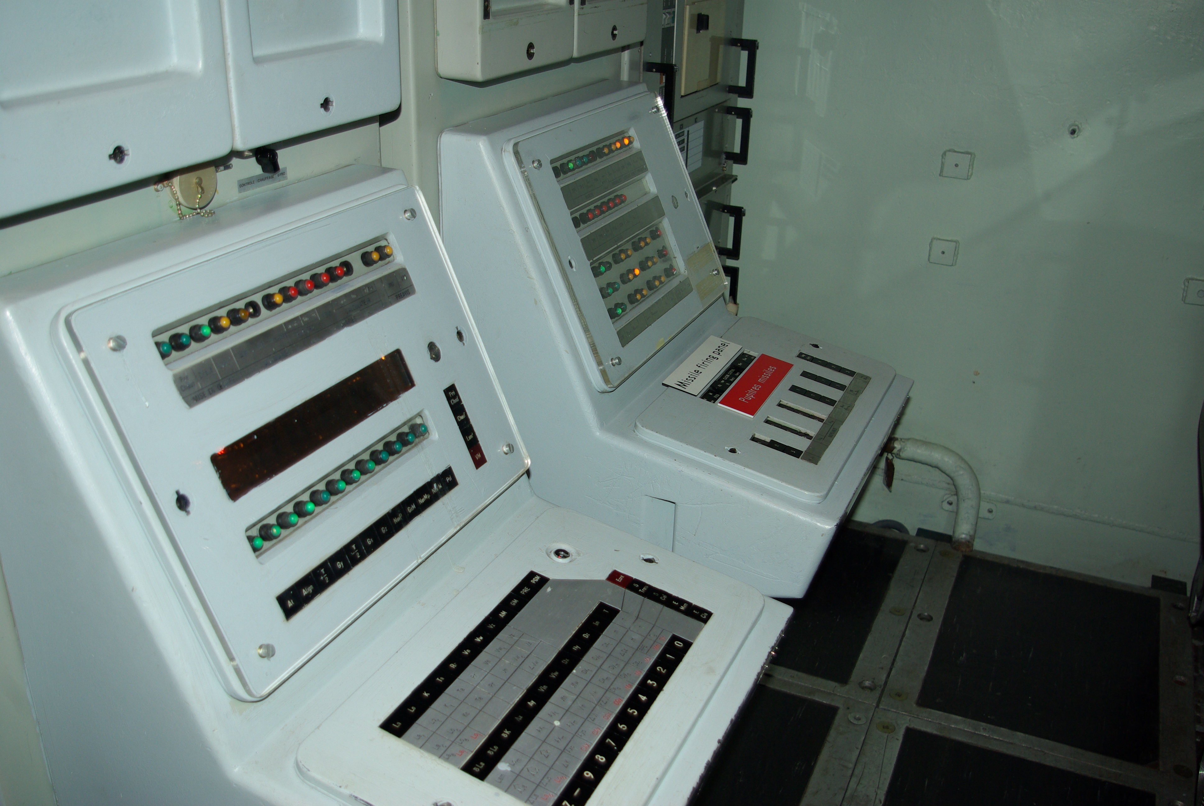 Missile firing panel of the ballistic missile submarine Le Redoutable.